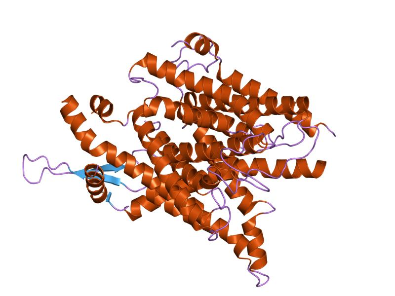 Cartoon representation of the molecular structure of protein registered with 1rh5 code.